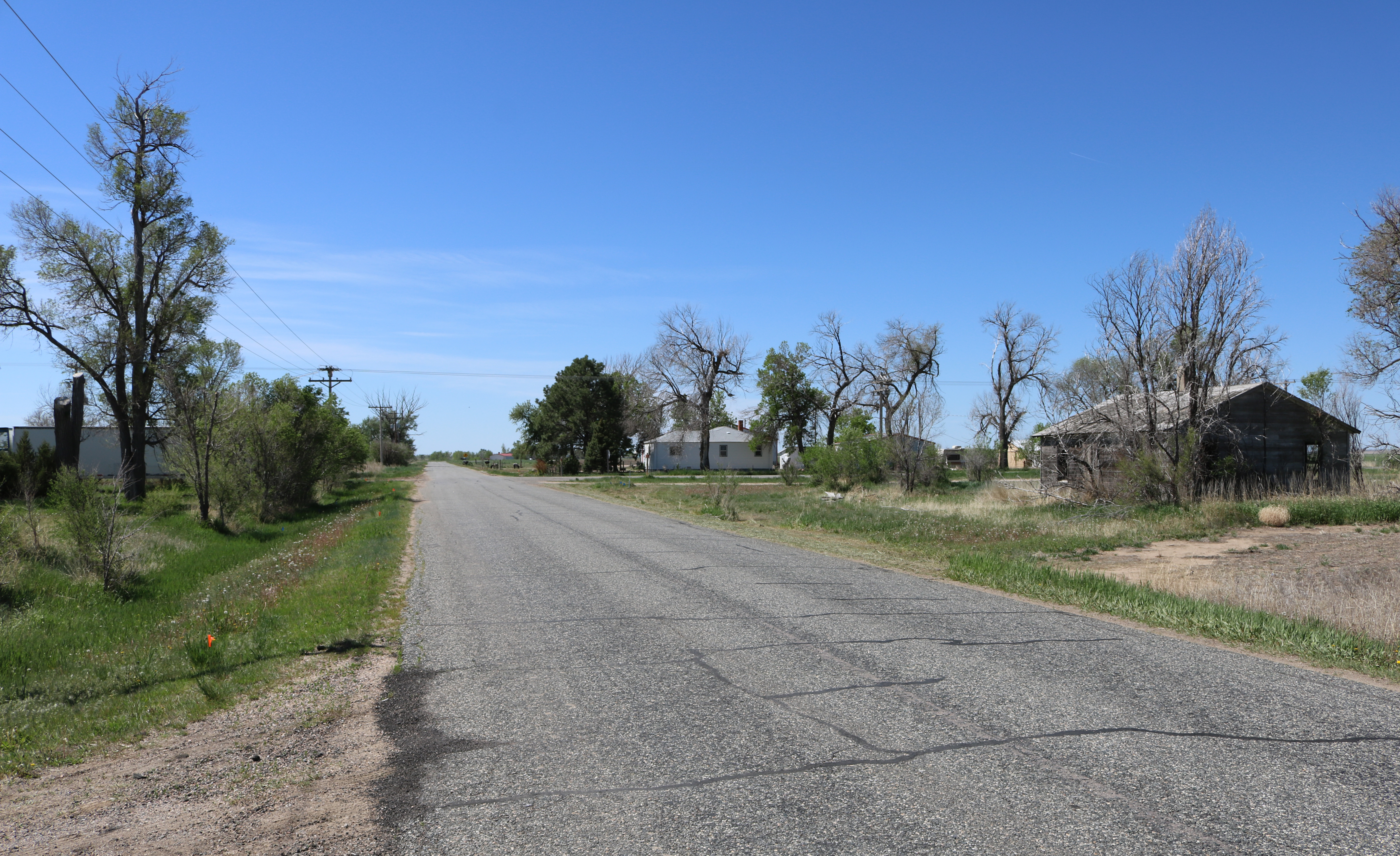 The community of Hoyt, Colorado, in Morgan County. The view is to the south along Morgan County Road 4.